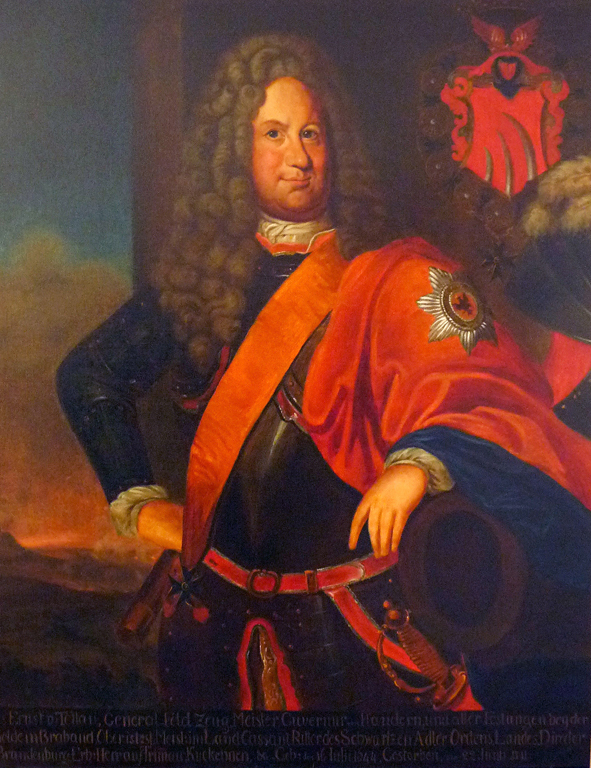 Ernst von Tettau, born 1644, dead 1711. General officer in Danish, Dutch, and Prussian service.